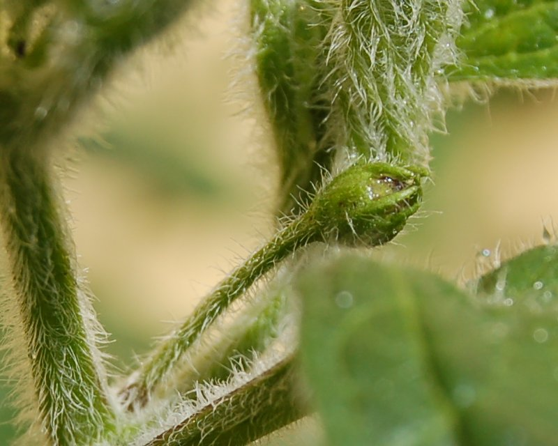 This is a flower bud of a CAP 1033 chili pepper plant. It belongs to the Capsicum pubescens species, which is commonly known as Rocoto. The author of this picture is Luciano Roth Coelho (ie. myself) and I'm publishing it under the Creative Commons ShareAlike 2.5 license.